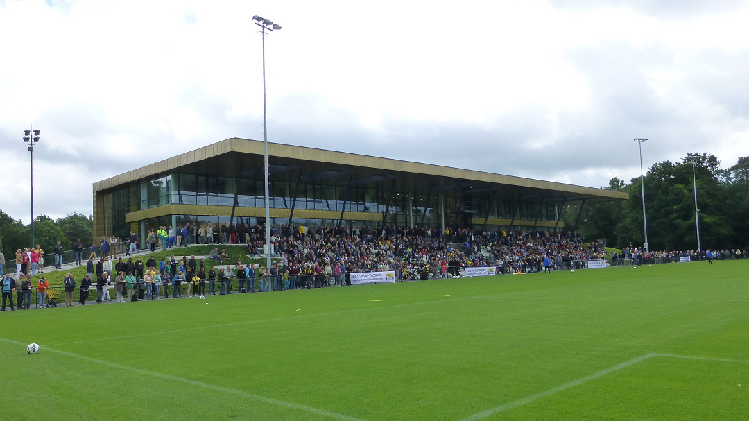 Training Accommodation Vitesse at the National Sports Centre Papendal; first official training of the 2013/2014 season